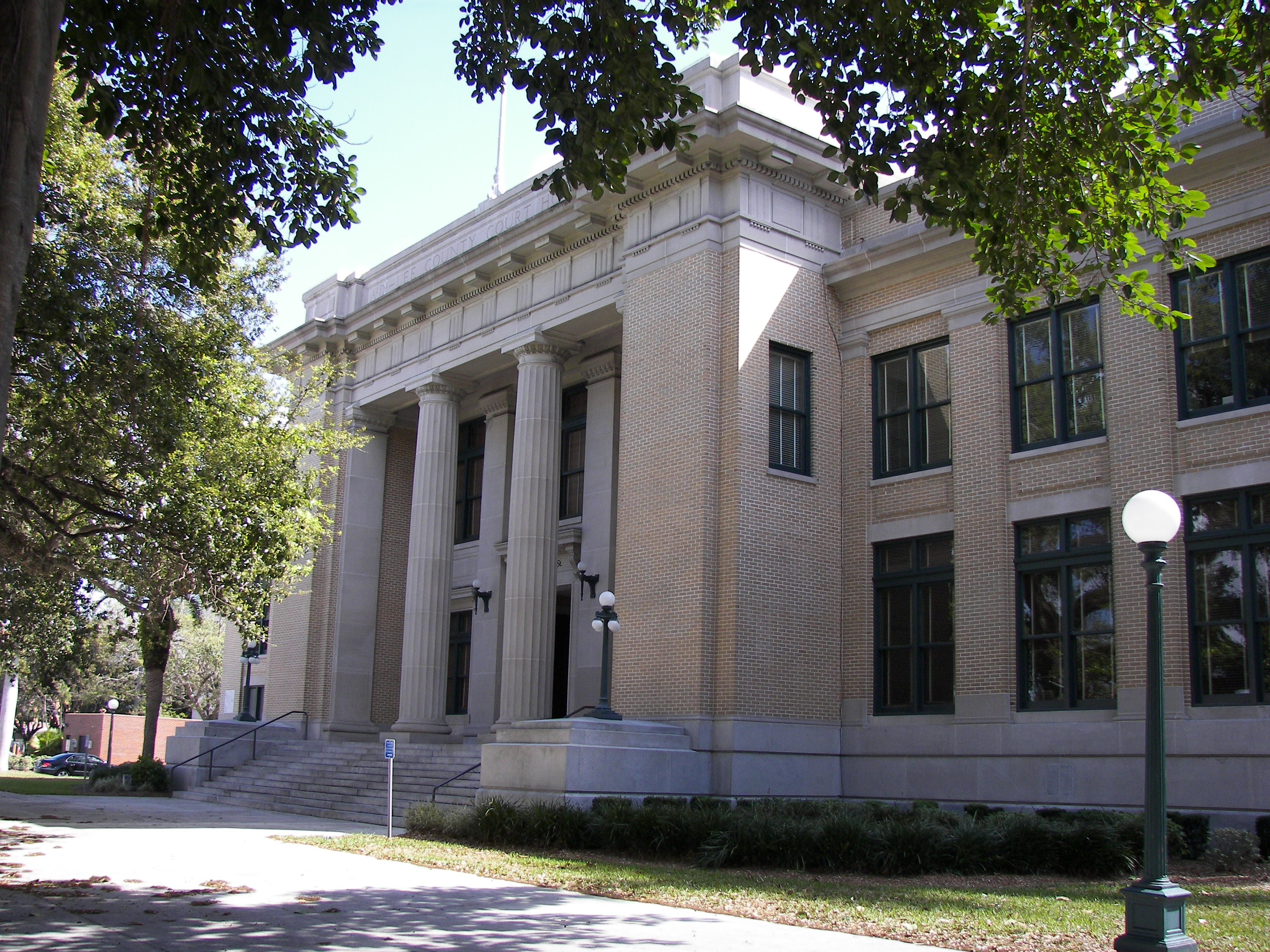 Old Lee County Courthouse in Fort Myers, Florida. The courthouse is on the National Register of Historic Places.